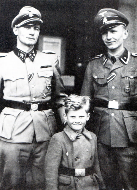 SS-Sturmbannführer Christian Frederik von Schalburg (left), his son Alex, and SS-Unterscharführer Søren Kam. Both von Schalburg and Kam have been decorated with the Iron Cross (class 2)